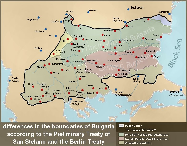 Map of Bulgaria before and after the Berlin Congress 1878